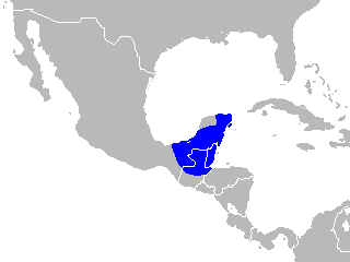 Range map of Alouatta pigra